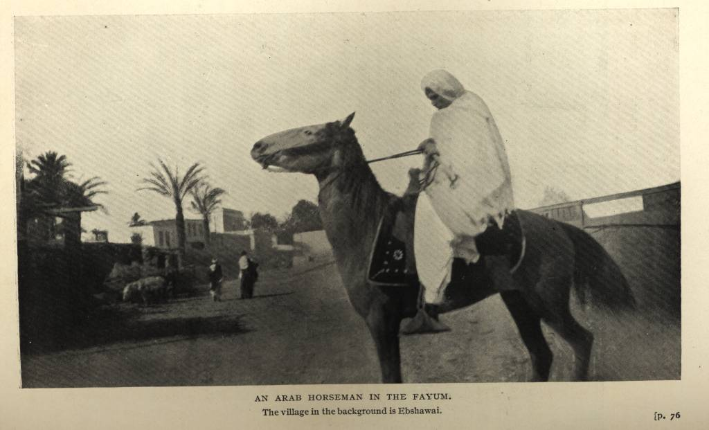 A man dressed in a white tunic riding a horse.